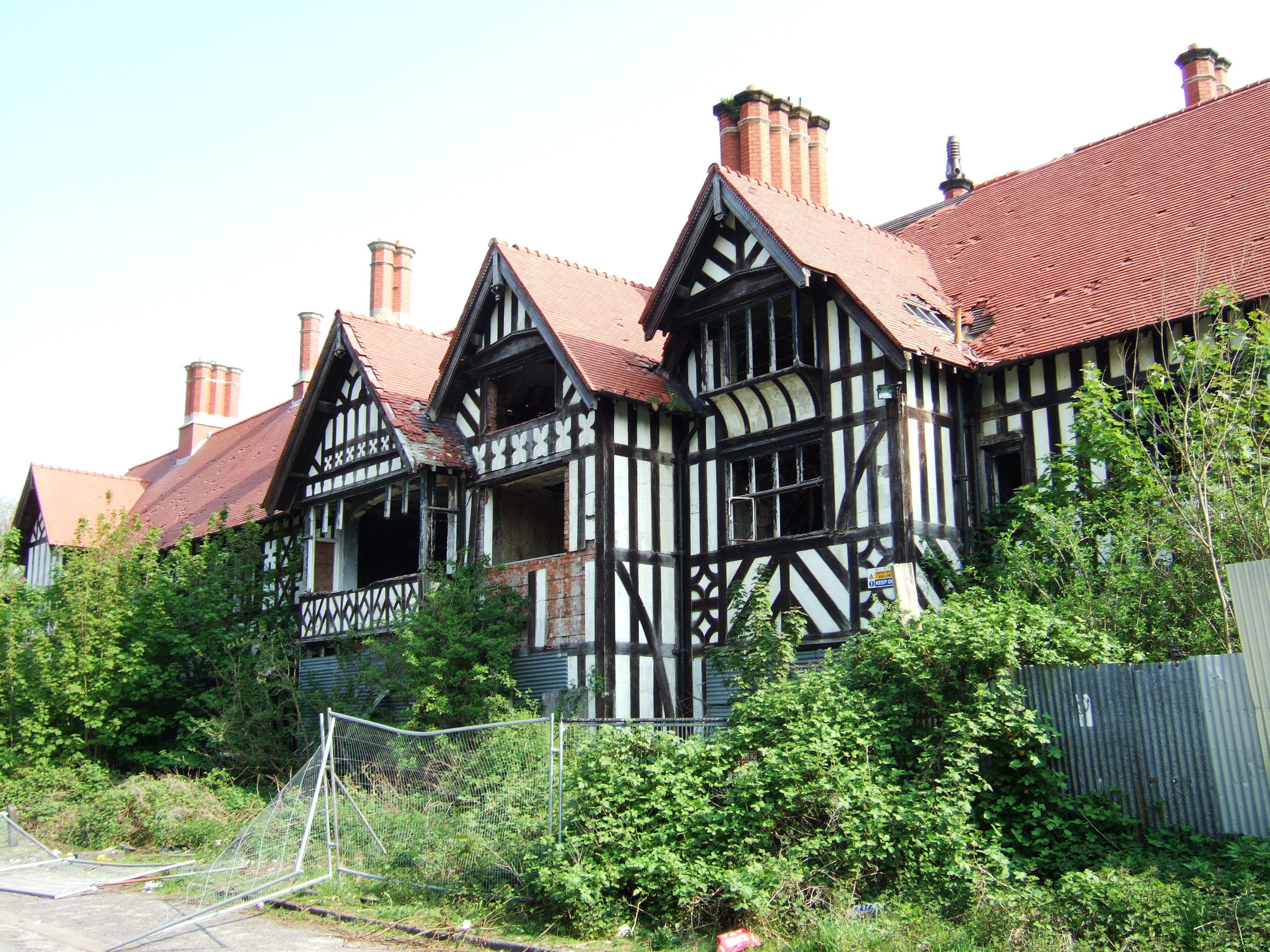 Ruins of Greaves Hall in Banks, Lancashire. A Mock Tudor mansion built in 1900, Greaves Hall suffered a major fire in July 2004 and is now claimed, by its developer owners, to be beyond repair.